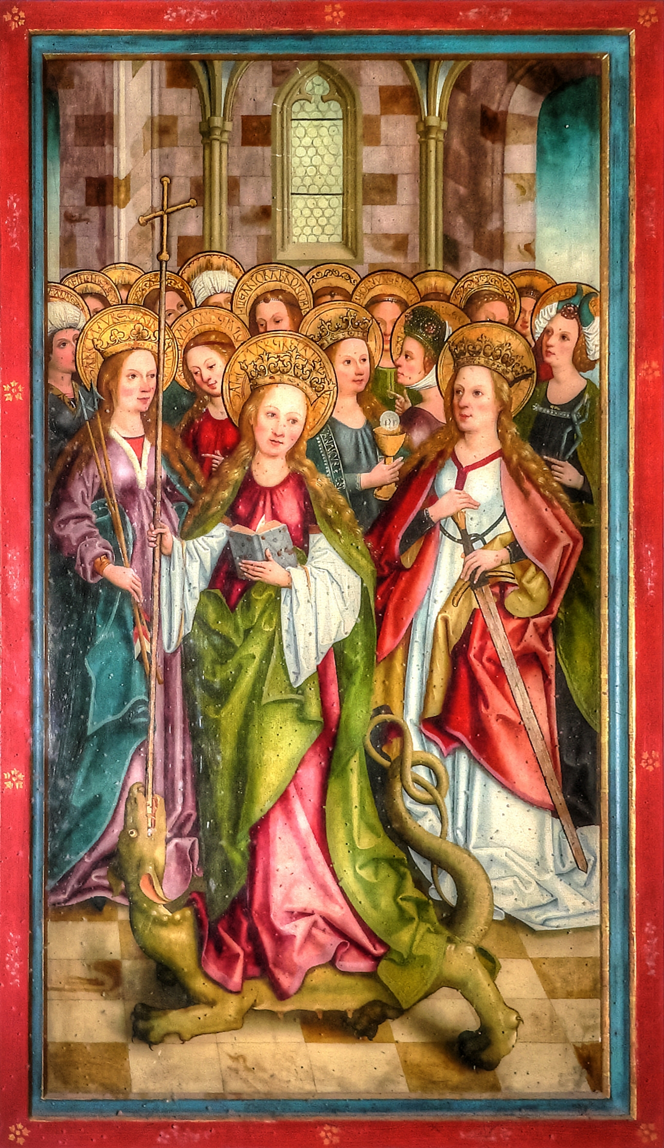 The Lutheran cathedral "Ulm Münster" of Ulm/Germany, altarpiece "Margaret the Virgin" by Bartholomäus Zeitblom, 1489-1497